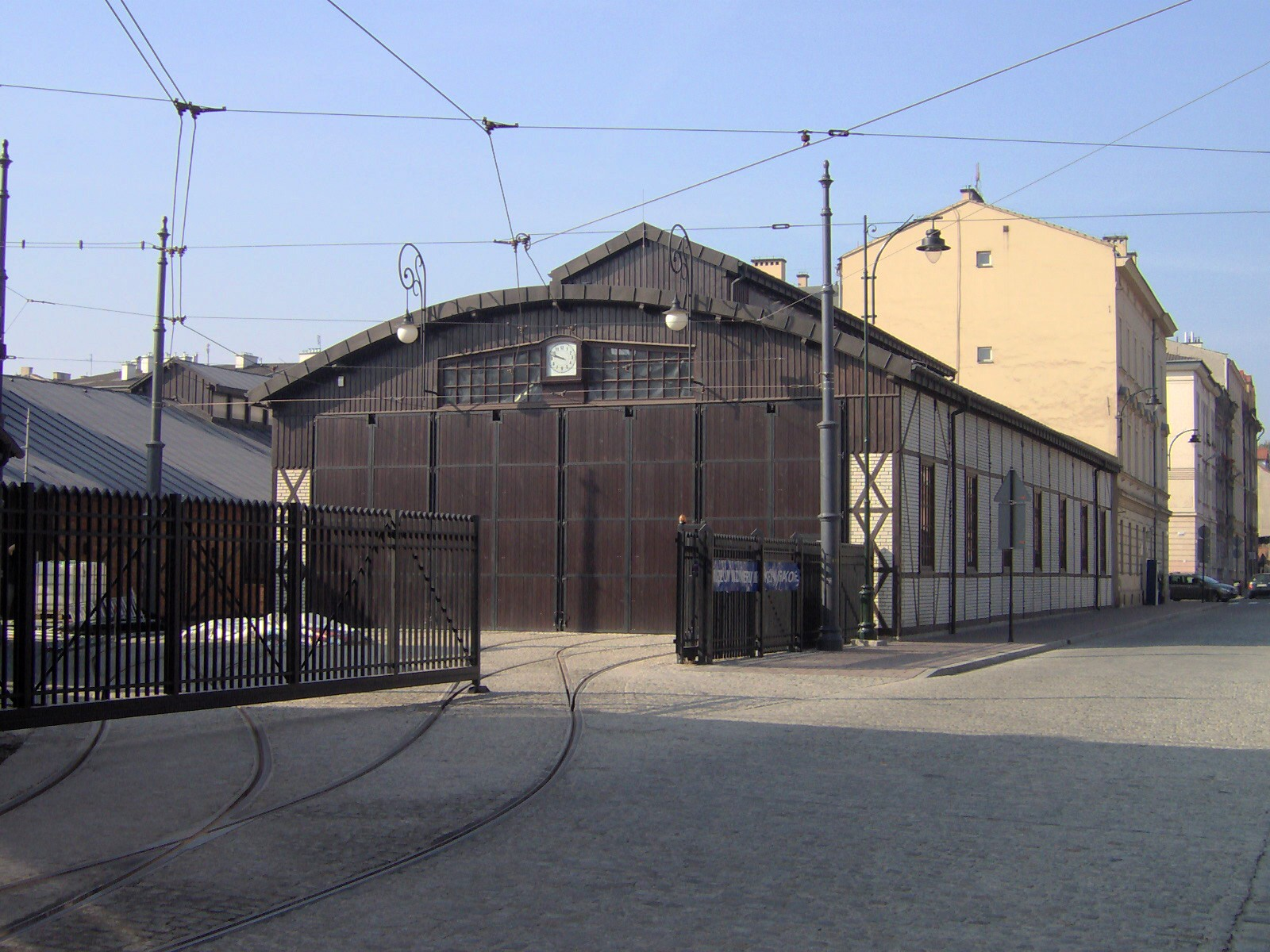 St. Lawrence tram depot, Kraków, Poland